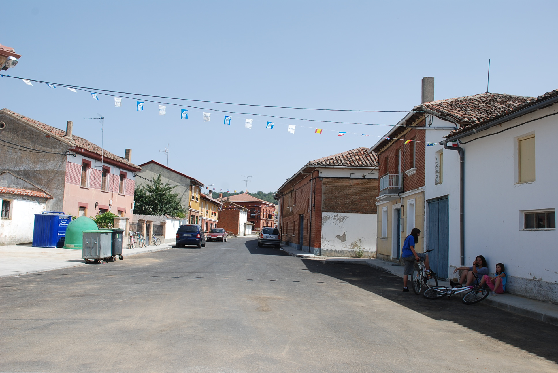 Main street of Ayuela (Palencia, Castile and León).